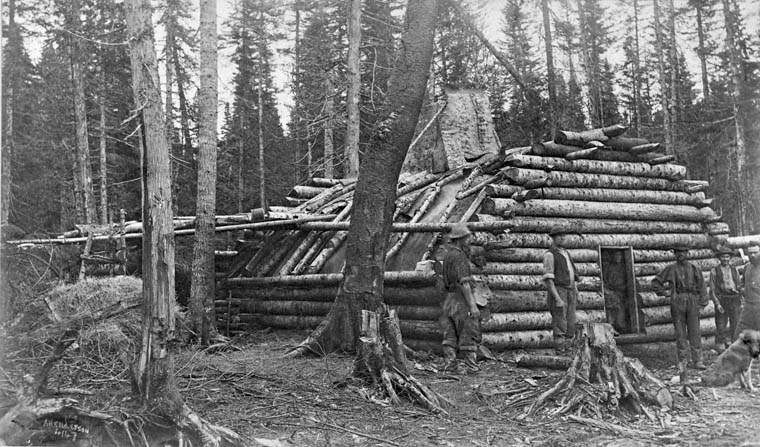 Intercolonial Railway. Labourers shanty. Tartigou River, Quebec, Canada.